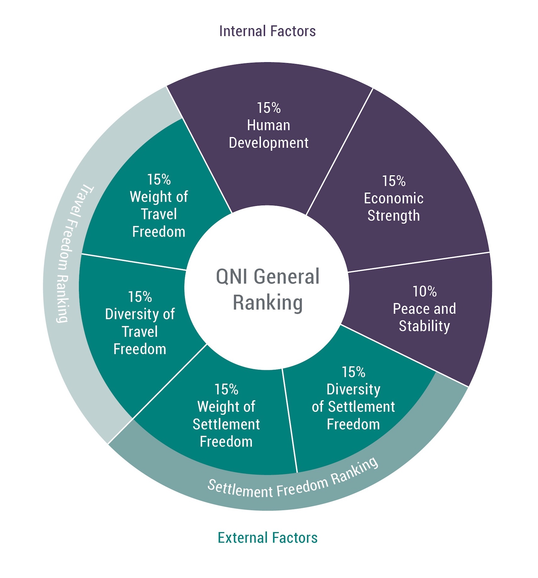 Quality of Nationality Index factor weighting used in calculating scores